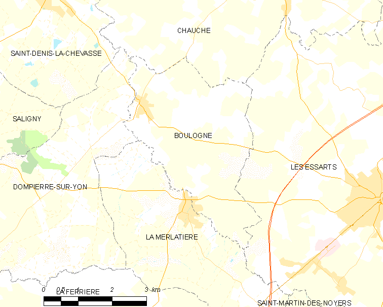 Map of French municipality Boulogne